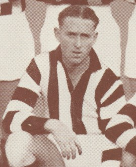 Photograph of Fred Pearce in 1938